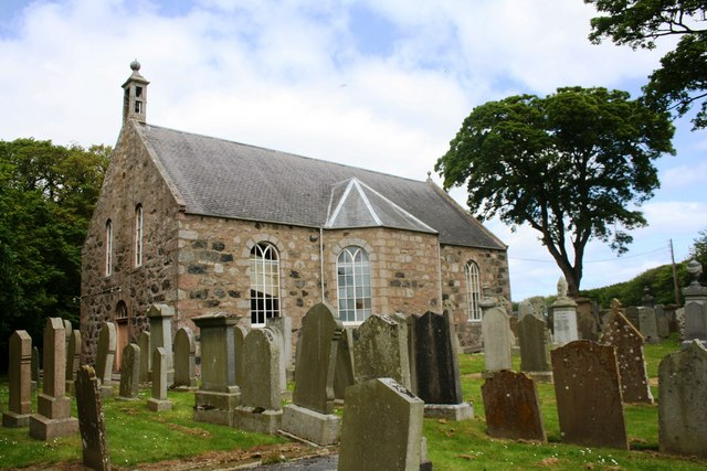 Foveran Parish Church Lying to the south of Newburgh is the parish church of Foveran.